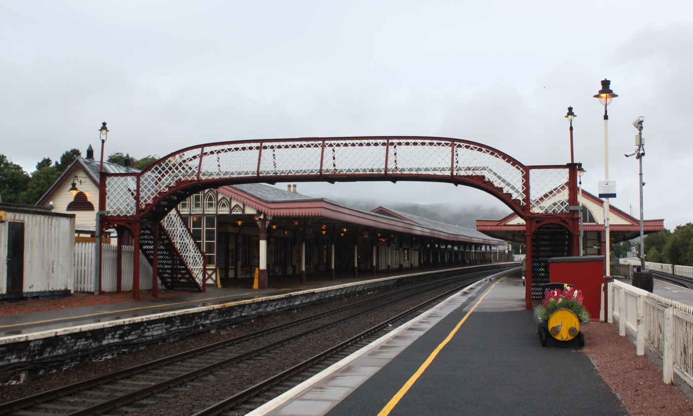 The graceful lattice footbridge at the south end of Aviemore station in Scotland.